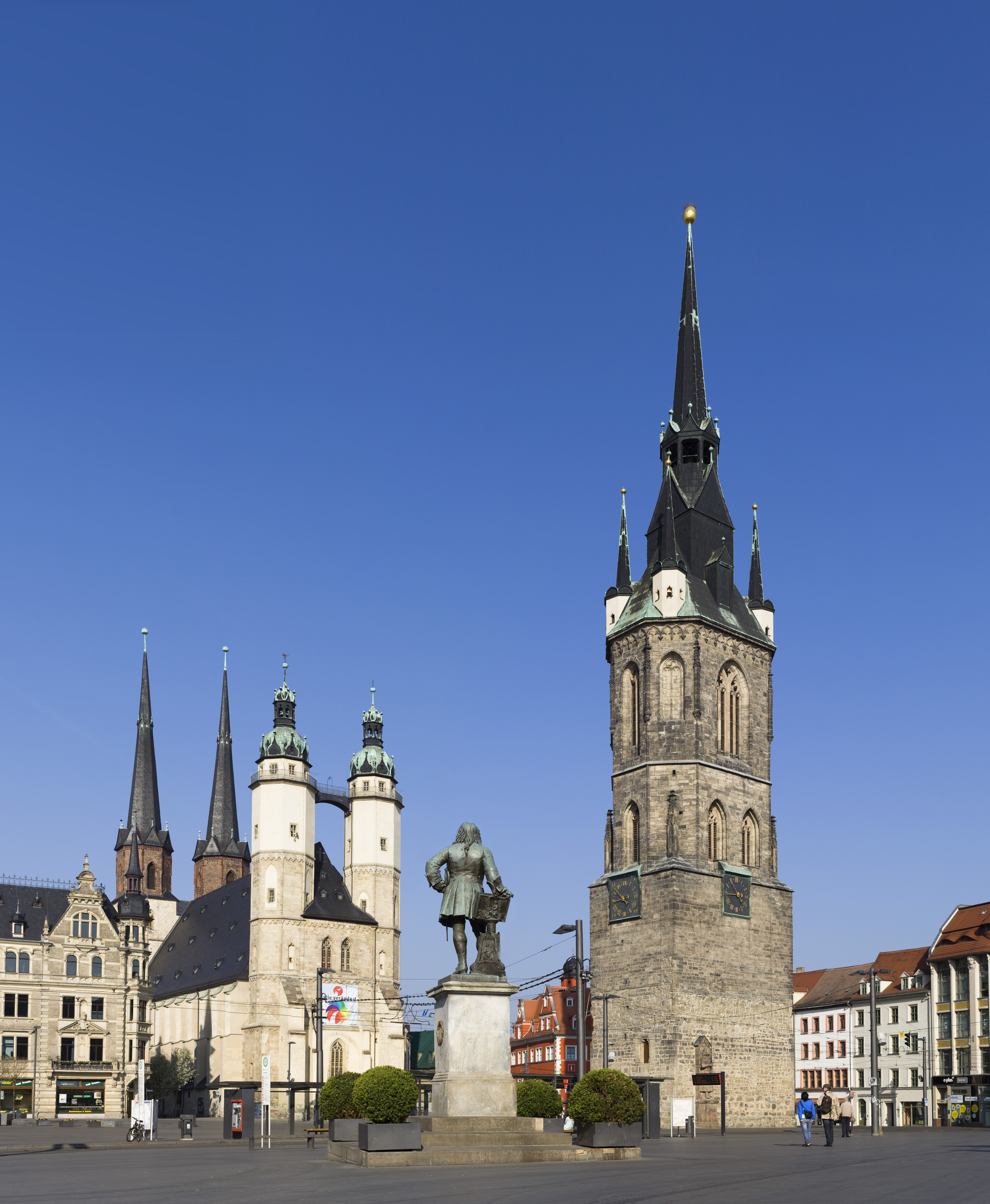 Marketplace in Halle, Saxony-Anhalt